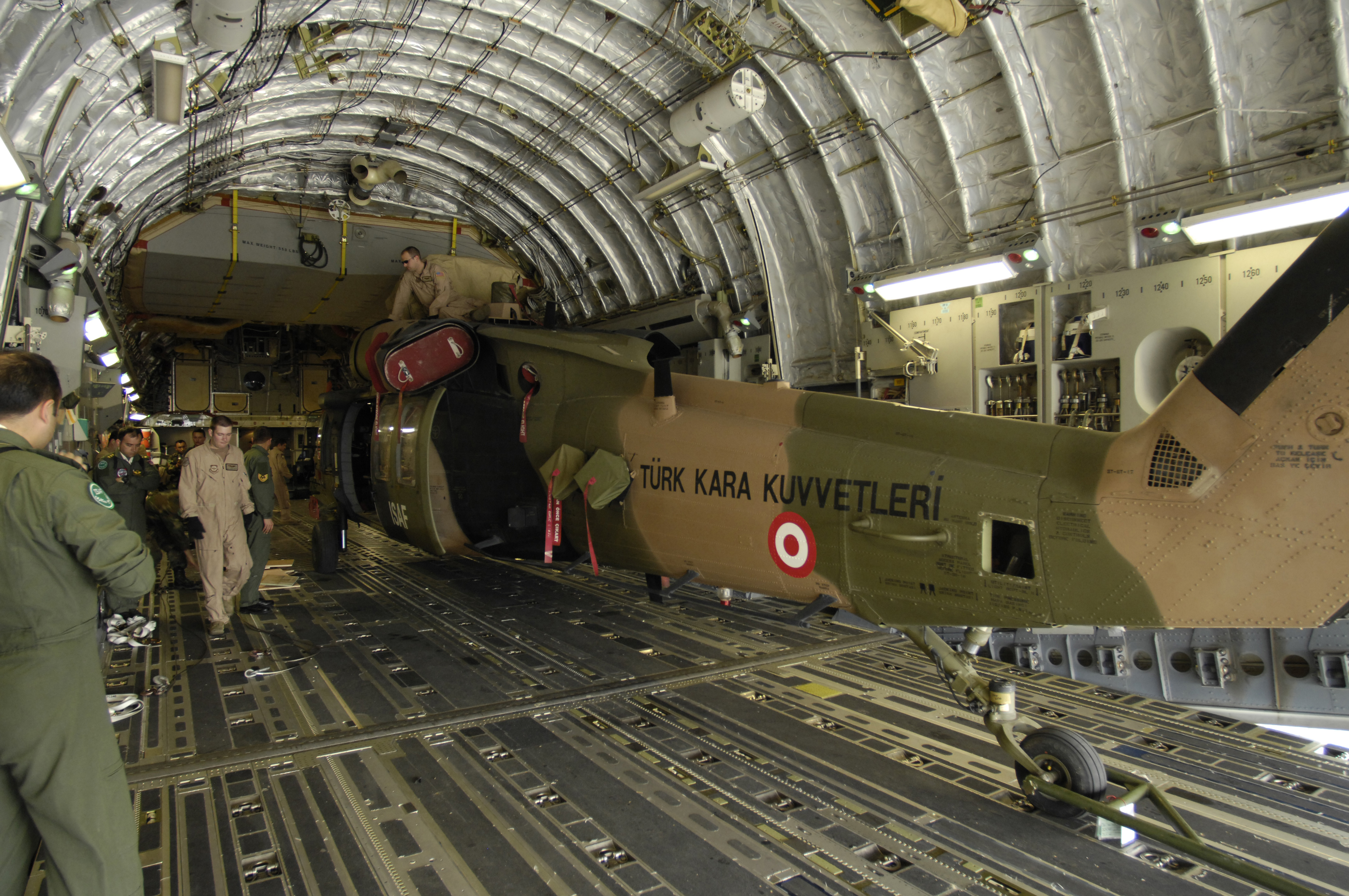 U.S. and coalition military forces unload about 37.5 thousand pounds of Turkish International Security Assistance Force payload off a C-17 Globemaster, Kabul International Airport, Afghanistan, in support of Operation Enduring Freedom, April 17. The C-17, from Incirlik Air Base, Turkey, contained two UH-60 Black Hawk helicopters.